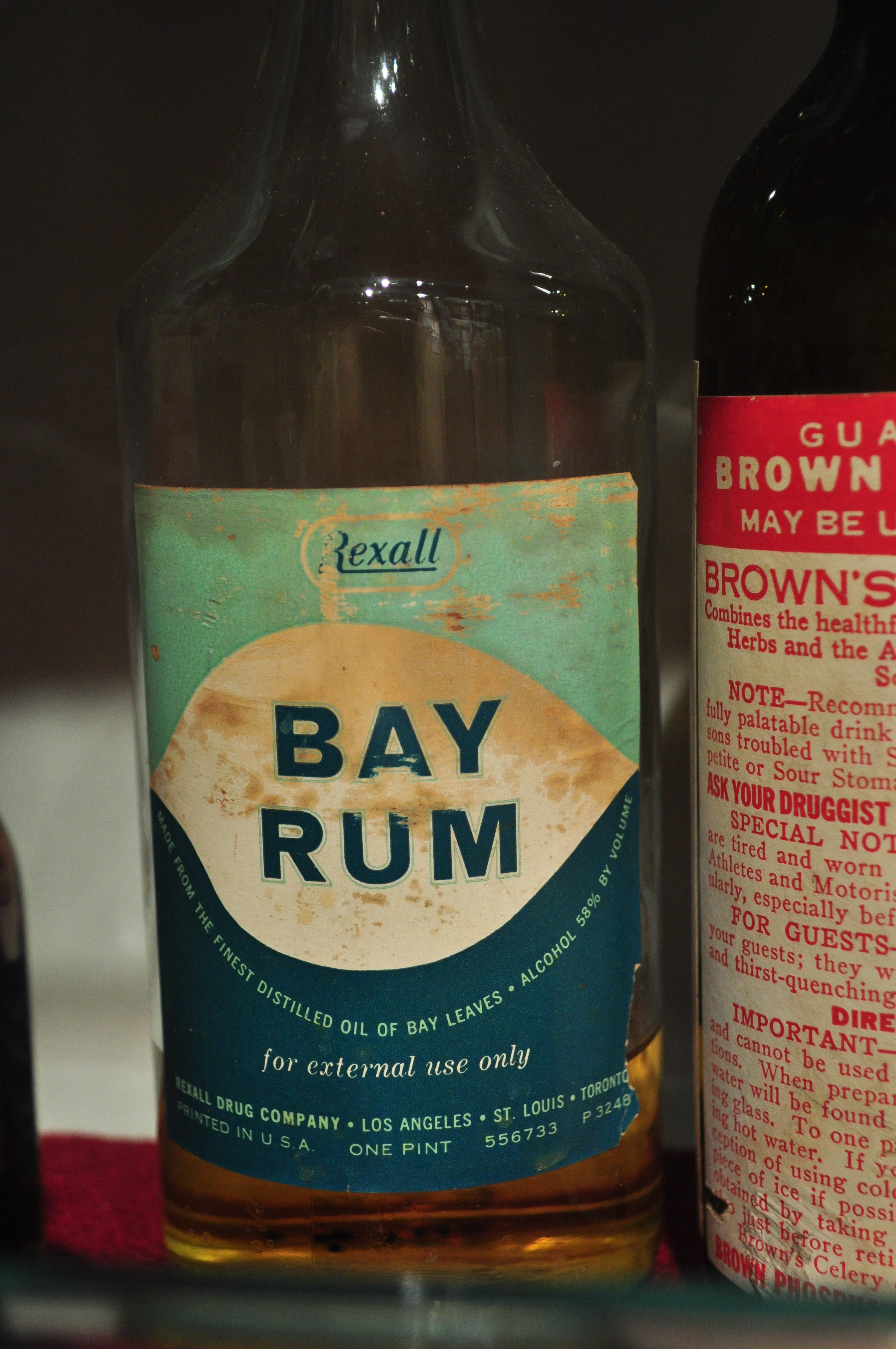 Rexall Bay Rum, 58% alcohol "for external use only," used as a way to duck the prohibition of alcohol during the Prohibition era in the United States. Photo taken at "Stills in the Hills", a 2012 exhibit about bootlegging during the Prohibition era in the United States, at White River Valley Museum, Auburn, Washington.